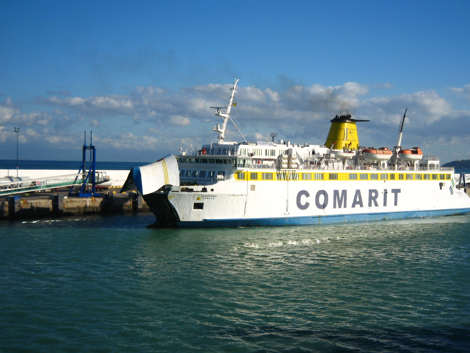 Comarit ferry MS Banasa arriving at Tangier